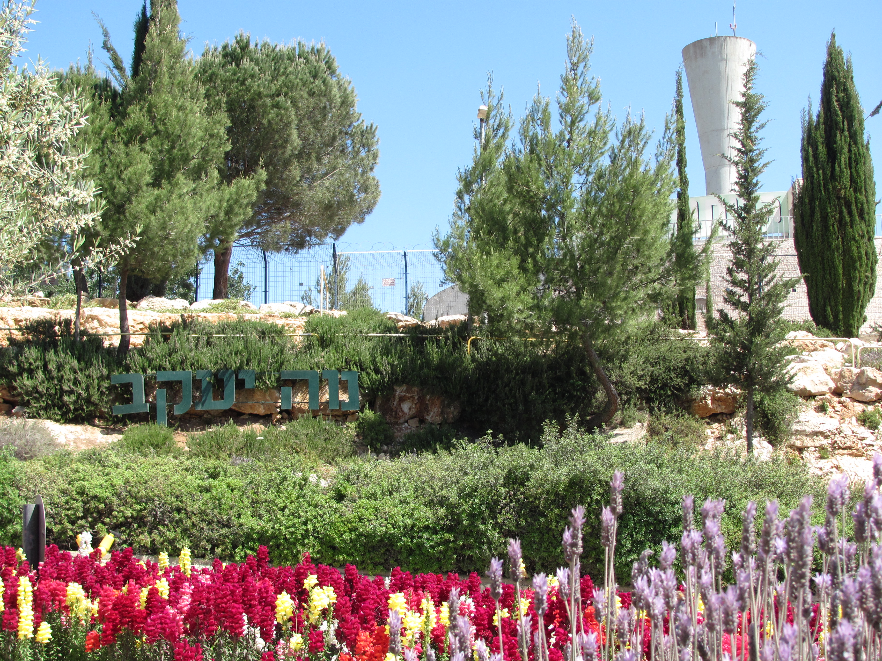 "Neve Yaakov" sign (in green) at the entrance to Neve Yaakov, Jerusalem, with water tower at right.